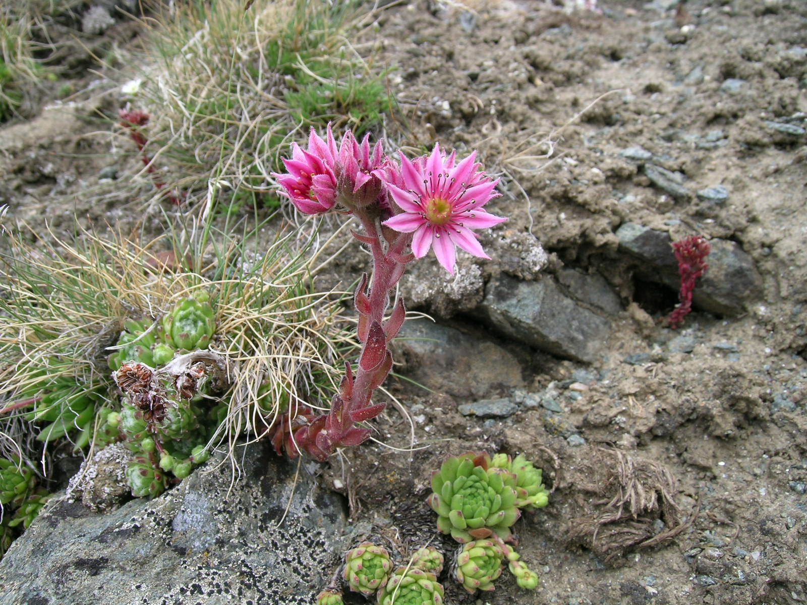 Sempervivum montanum Zermatt, Riffelberg (Kanton Wallis, Switzerland), 2500 m Author: Roland Teuscher – own photograph Date: 1.08.06